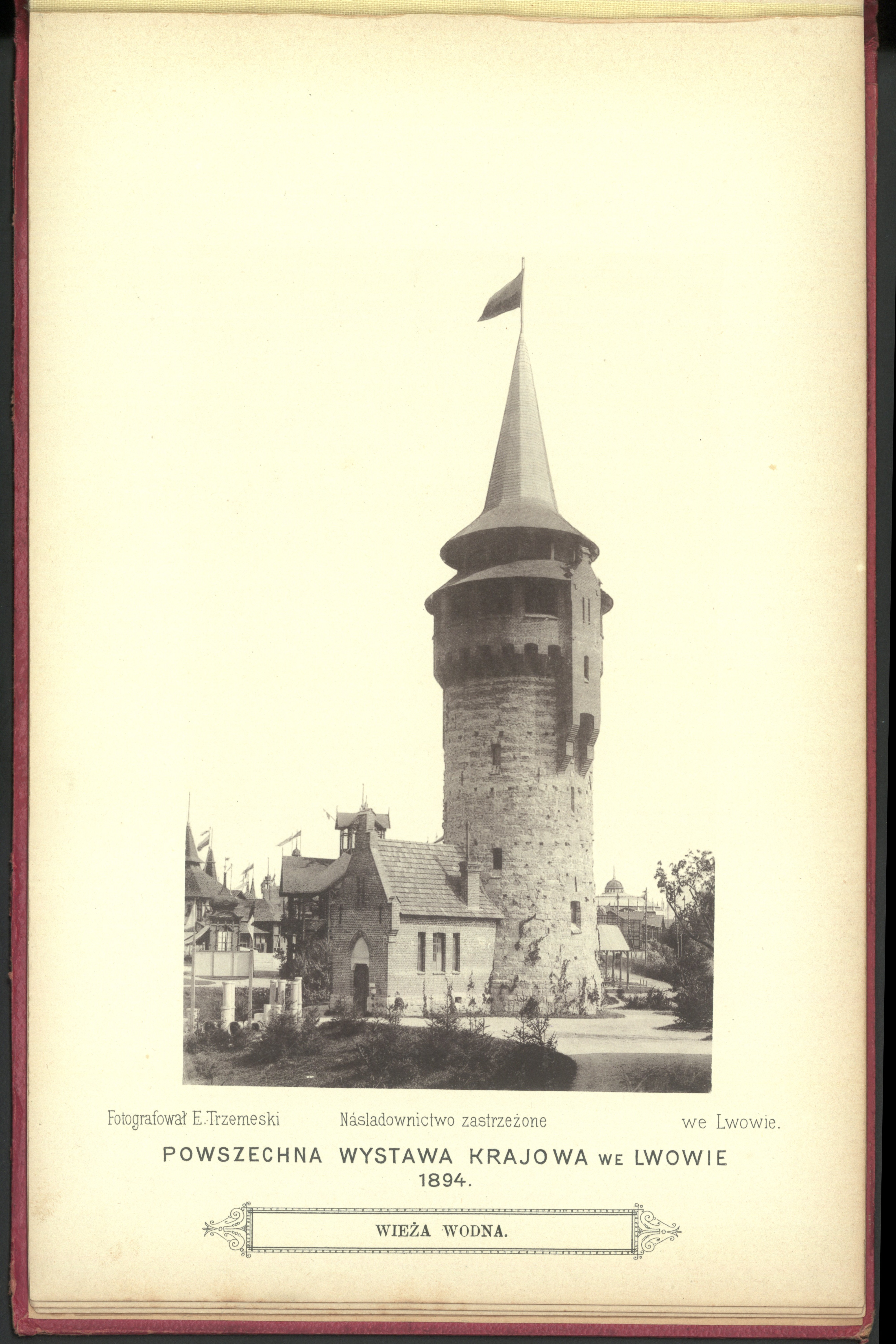 Water tower in Stryjski Park build in 1894